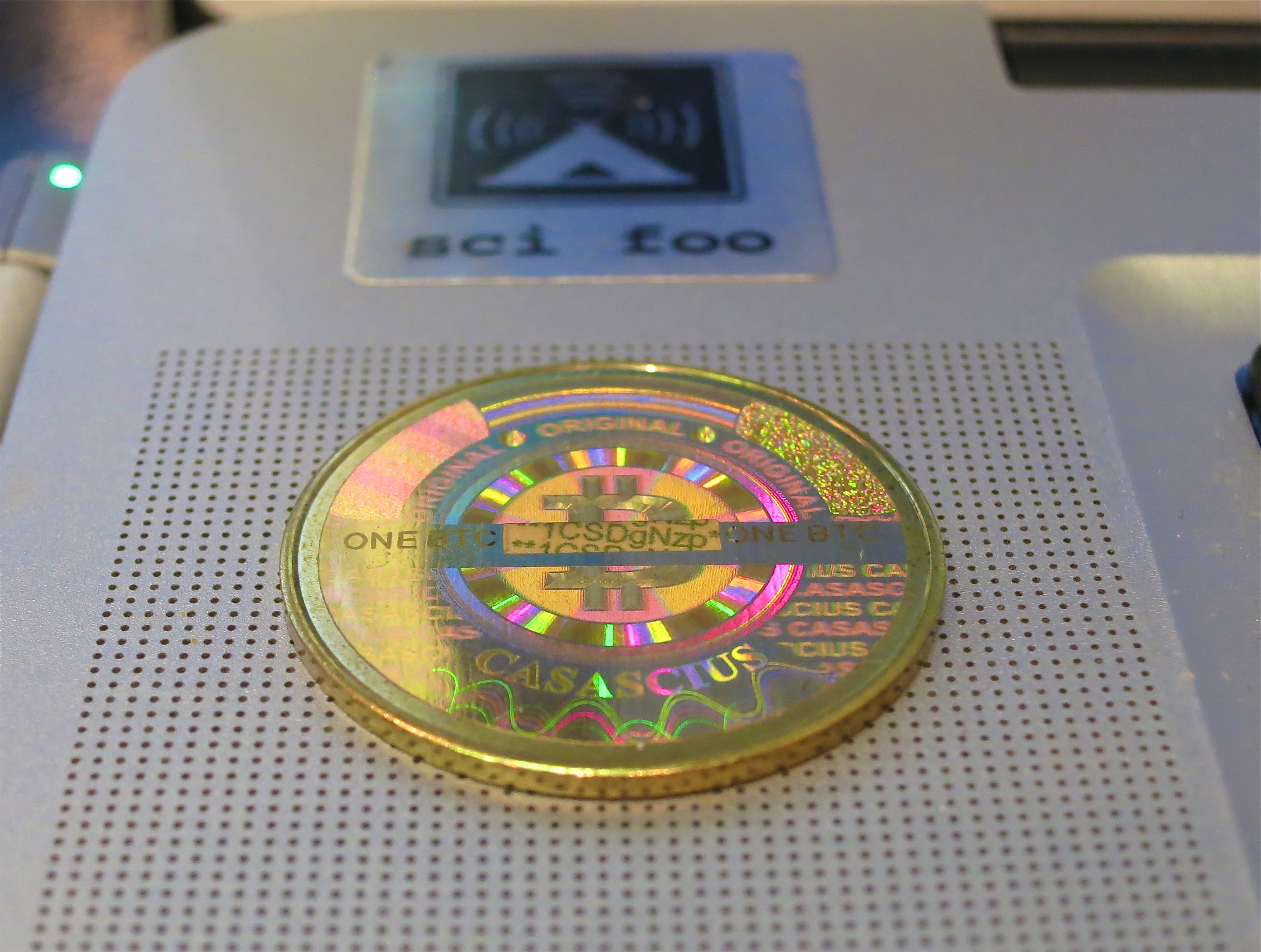 Casascius coin, a physicial bitcoin